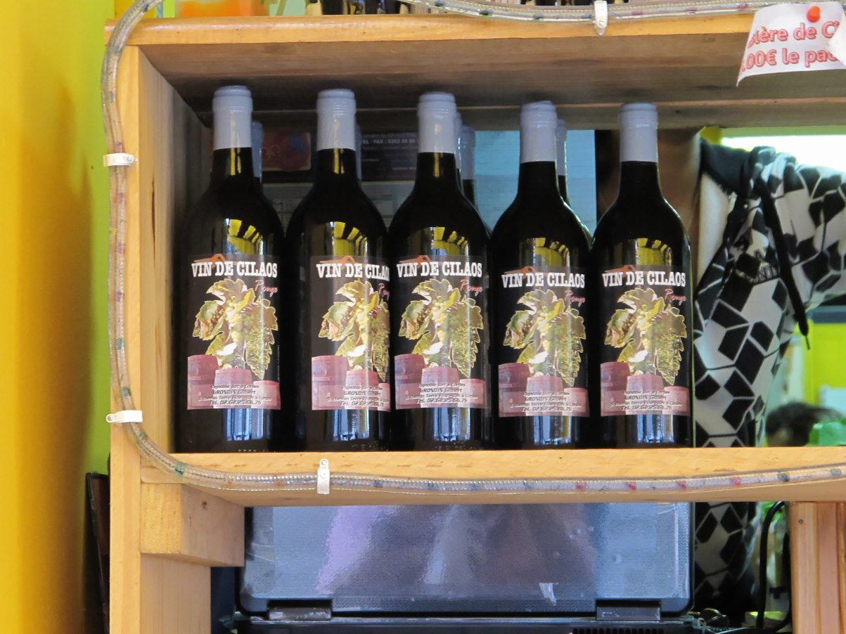 Wine from Cilaos)